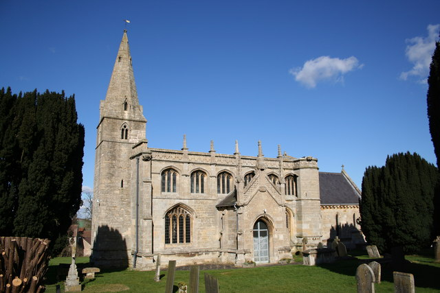 St Bartholomew's parish church, Welby, Lincolnshire, seen from the south